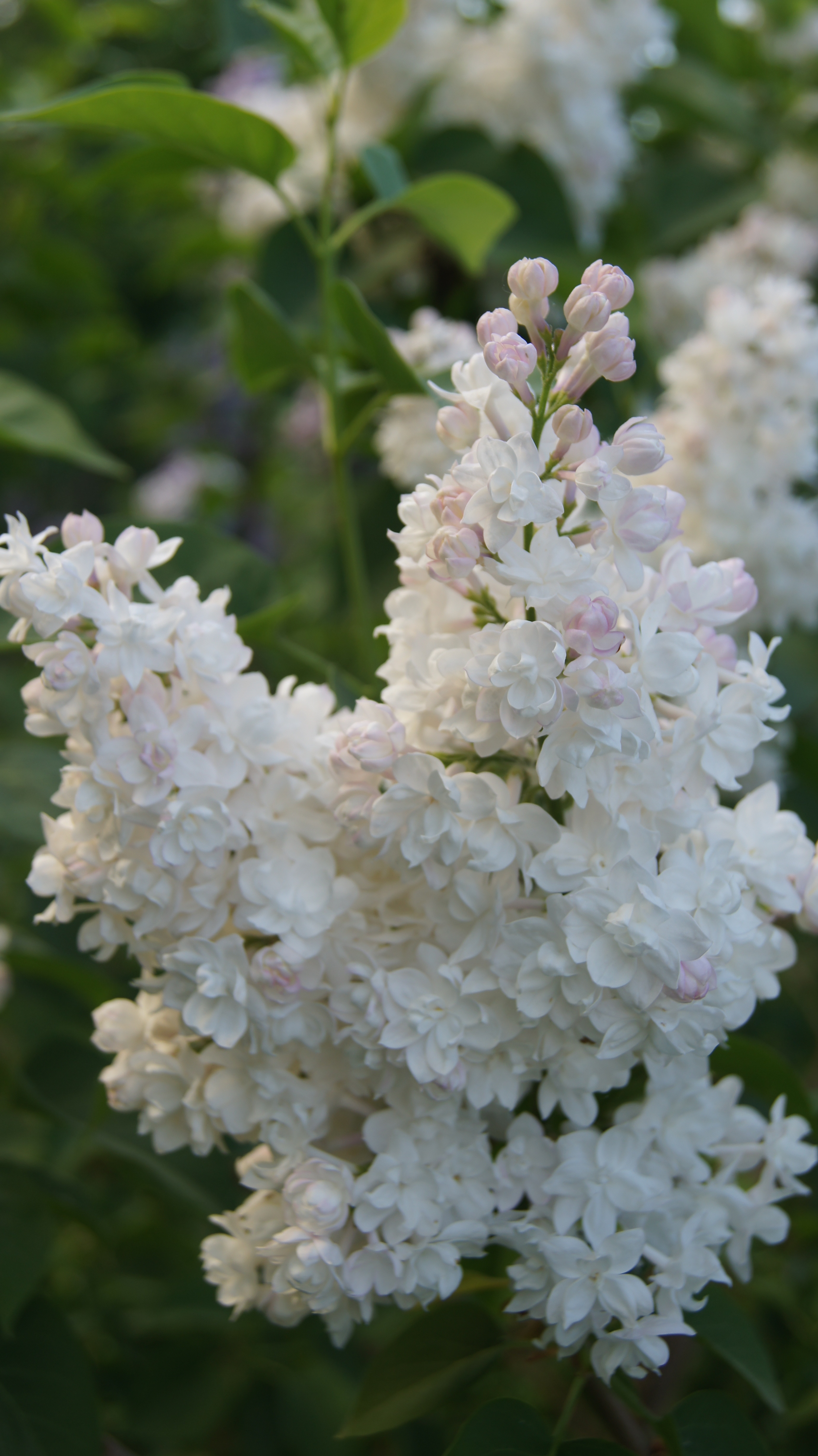 Sort of lilac "Beauty of Moscow" cultivar by Leonid Kolesnikov